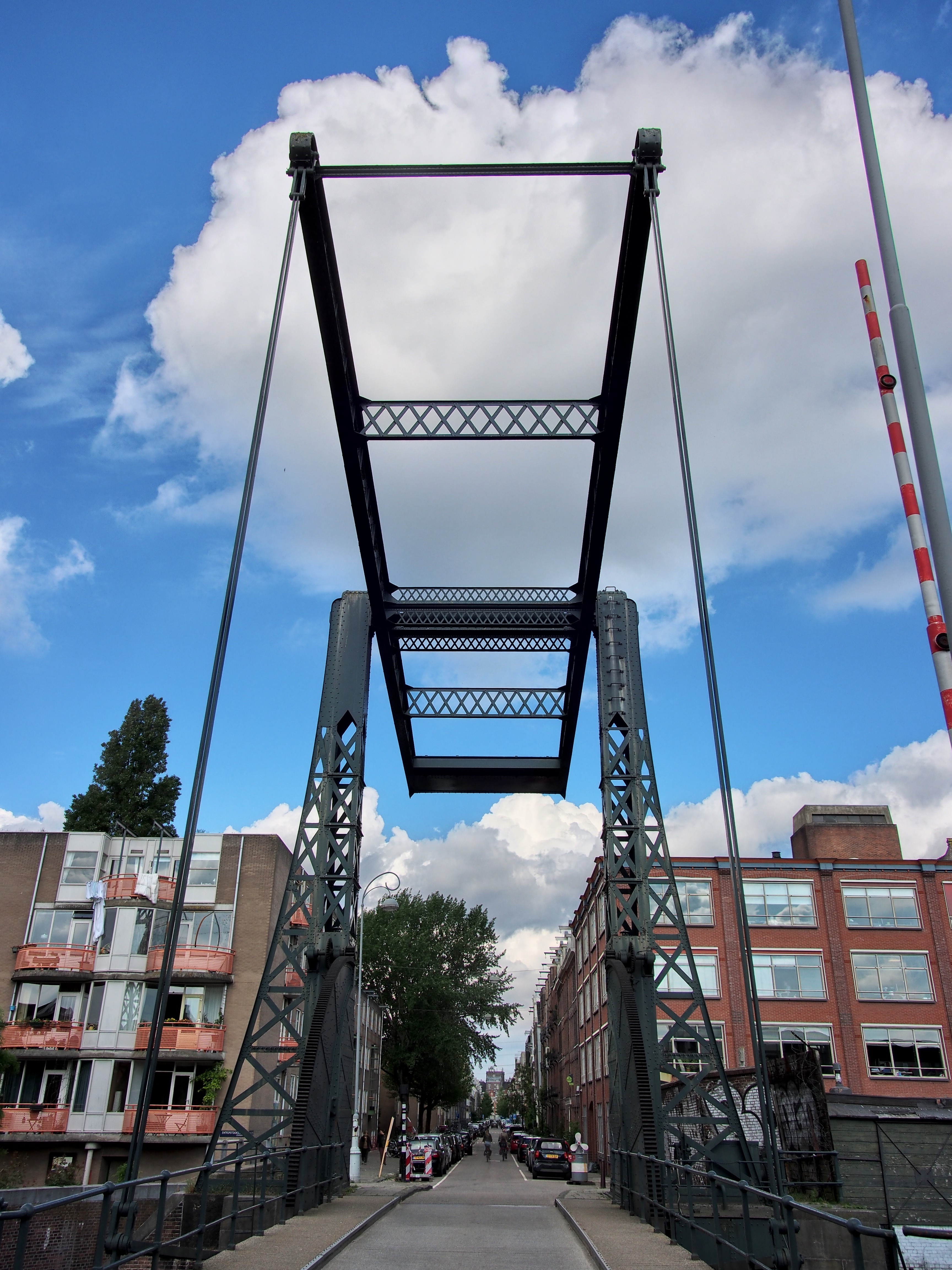 Photographed at Amsterdam, The Netherlands.